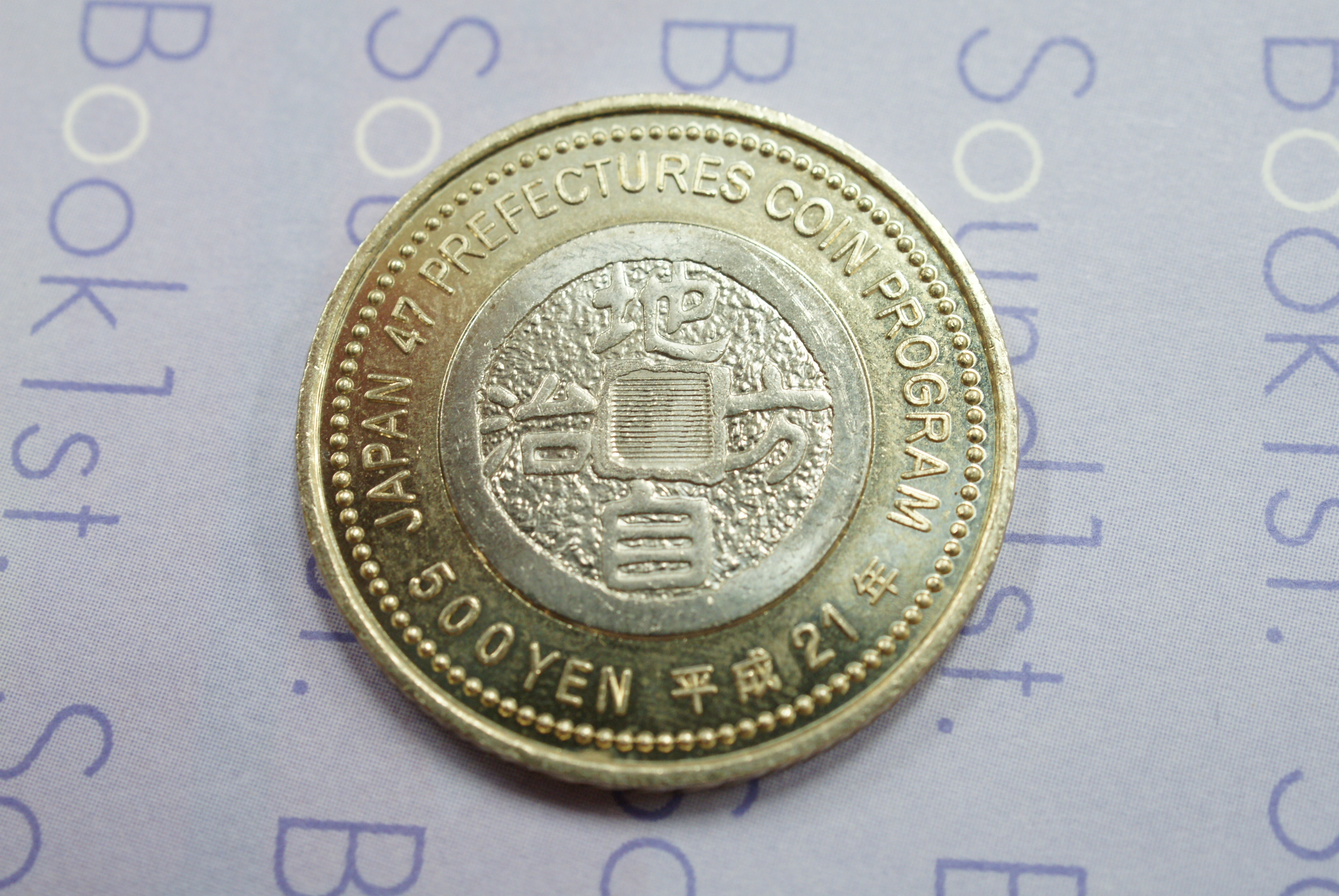 Japan Commemorative coin